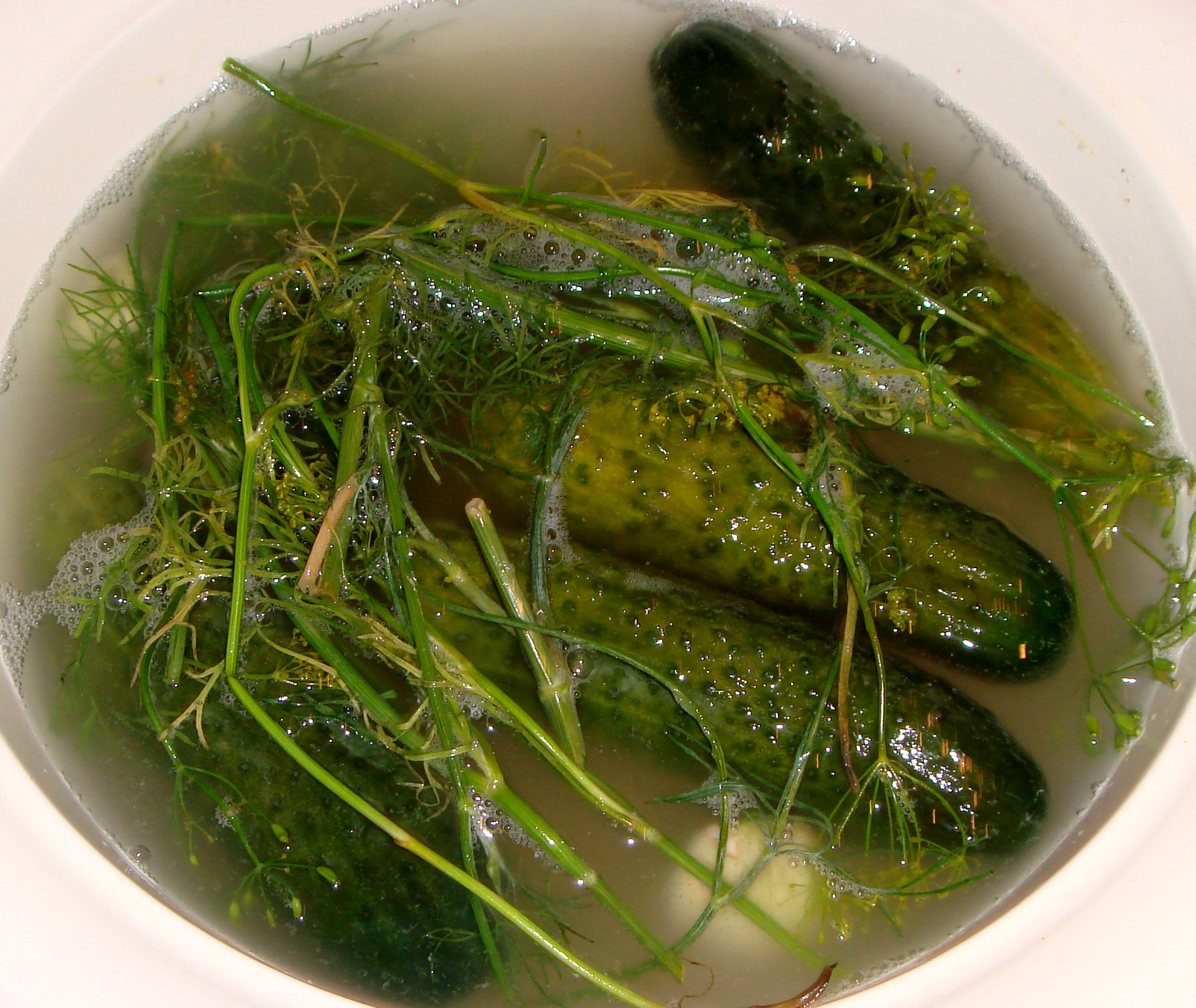 Cucumbers being pickled in salted water (first days).